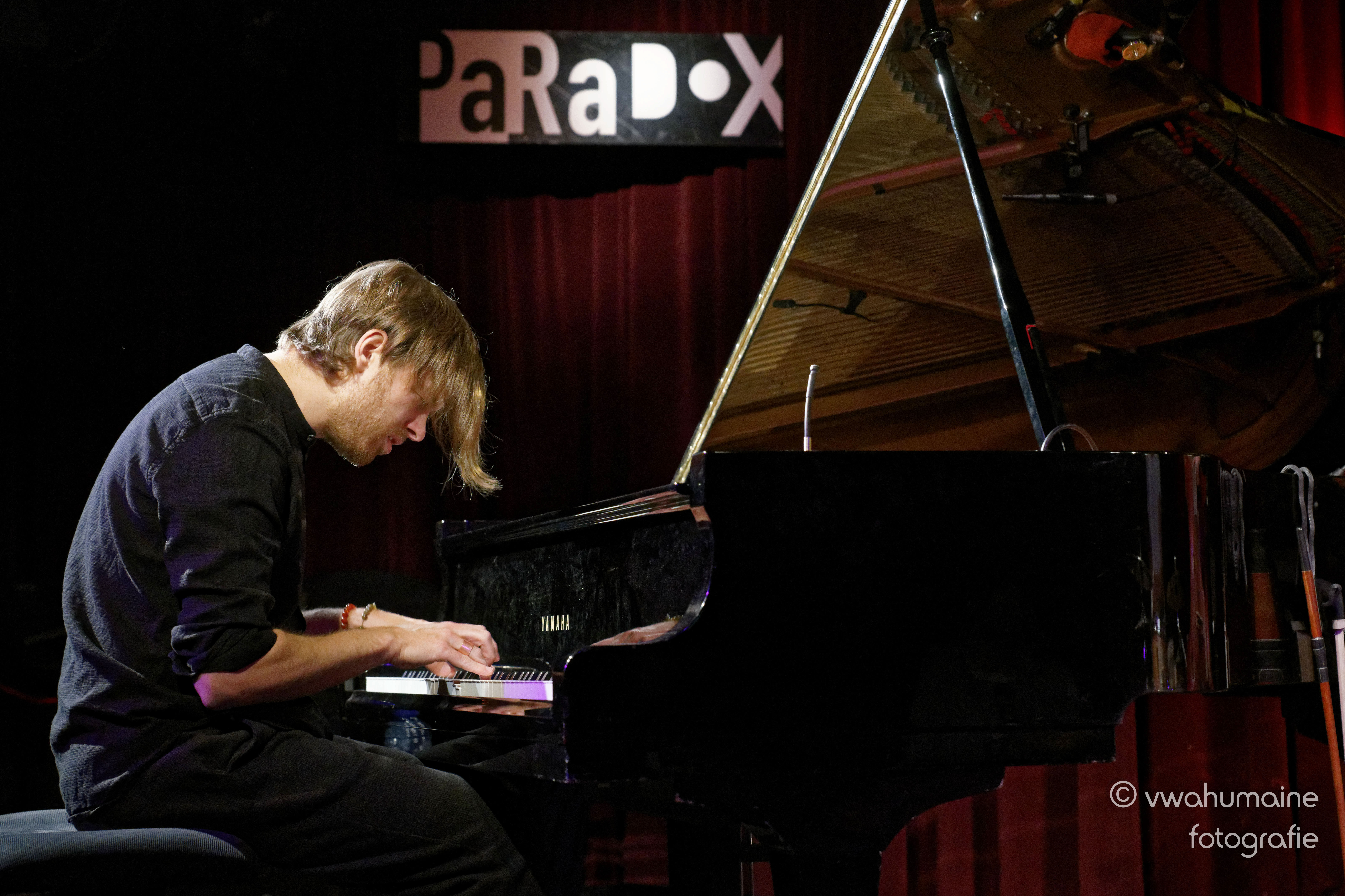 Colin Vallon at Paradox Tilburg (Netherlands), nov 17 2017 © Paul Janssen, vwahumaine fotografie